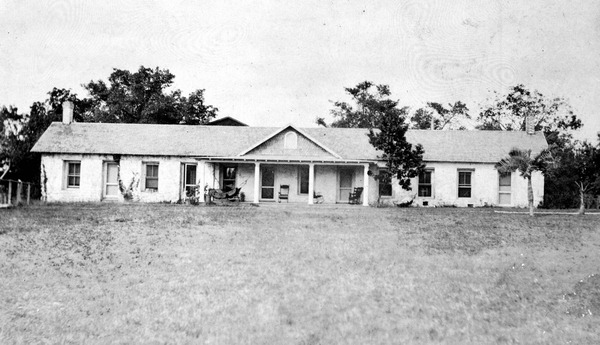 Lummus Park, Miami, Florida USA, circa 1930 photo, Florida Photographic Collection